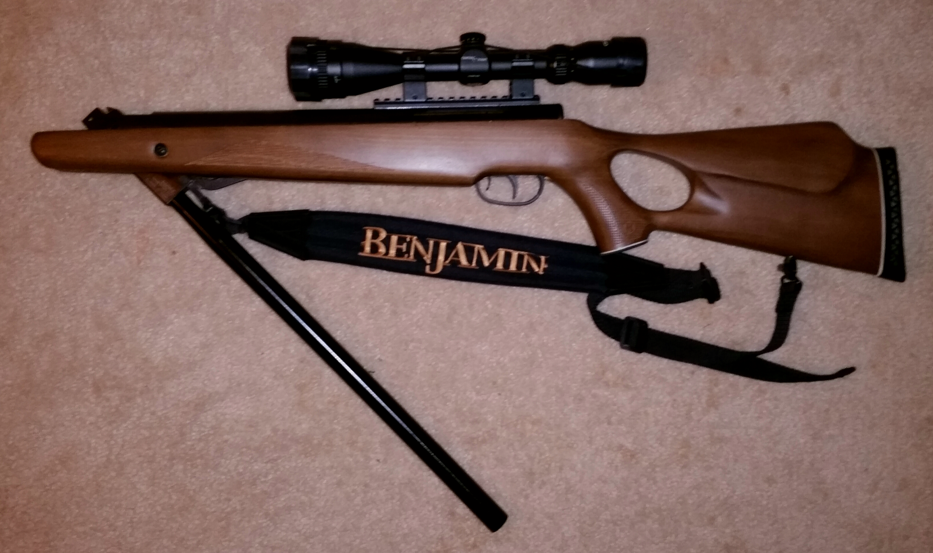 Similar to Spring Pistons, the Gas Ram Barrel "Breaks" allowing pellet loading while also compressing the air or nitrogen piston.